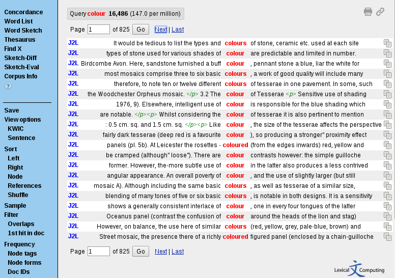 A set of concordances for the query "colour" provided by the Sketch Engine software.